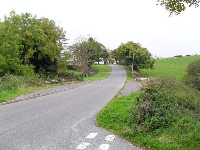 Tullyah Road at Greyhillan Less than a mile south of Whitecross in the townland of Greyhillan.